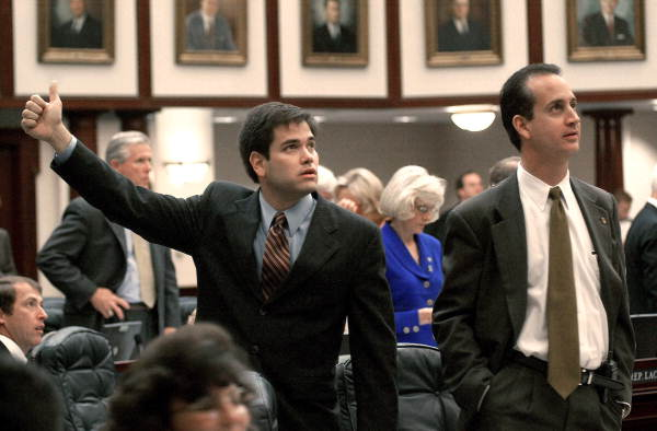 Florida State Representatives Marco Rubio and Mario Diaz-Balart in the House chamber - Tallahassee, Florida